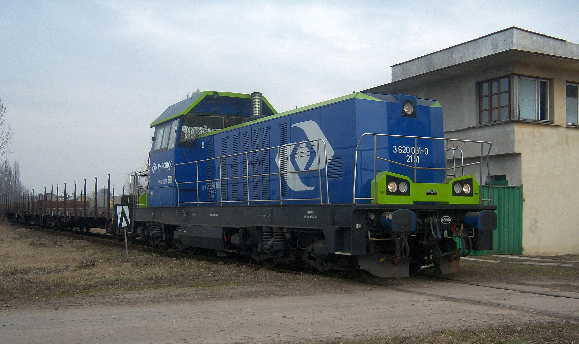 Diesel locomotive PKP class SM42-1238 in PKP Cargo livery at closed Maliniec train stop in Konin.